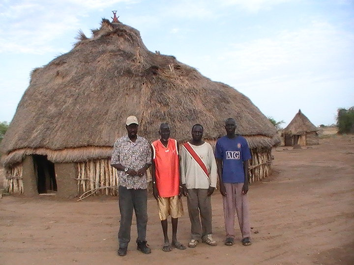 Taken at turu payam, southern sudan